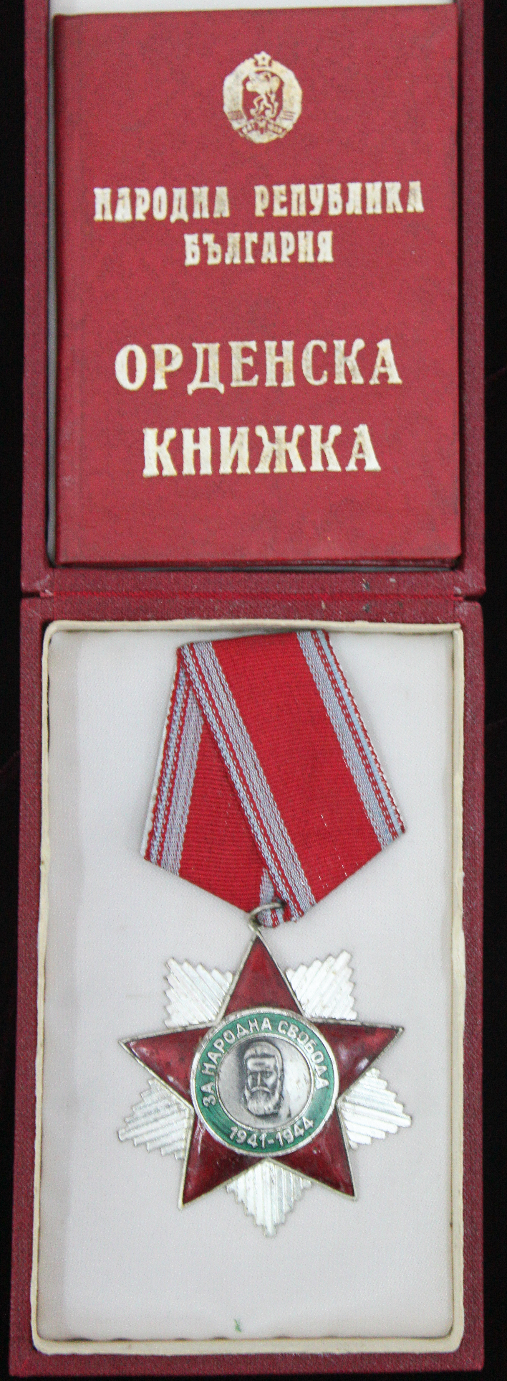 Historic Museum Ivailovgrad, Bulgaria